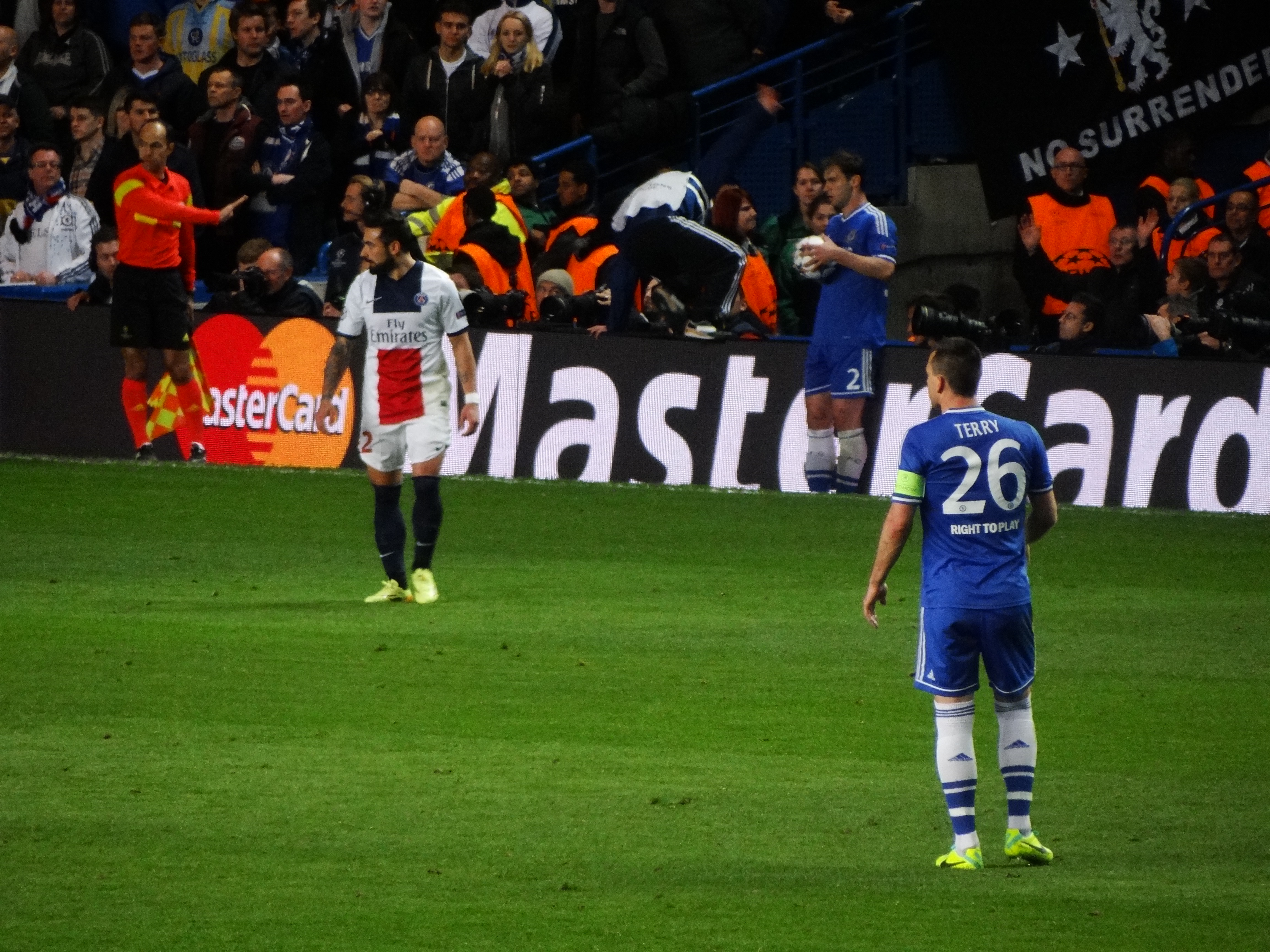 Chelsea FC v Paris Saint-Germain, 8 April 2014, Stamford Bridge, London.